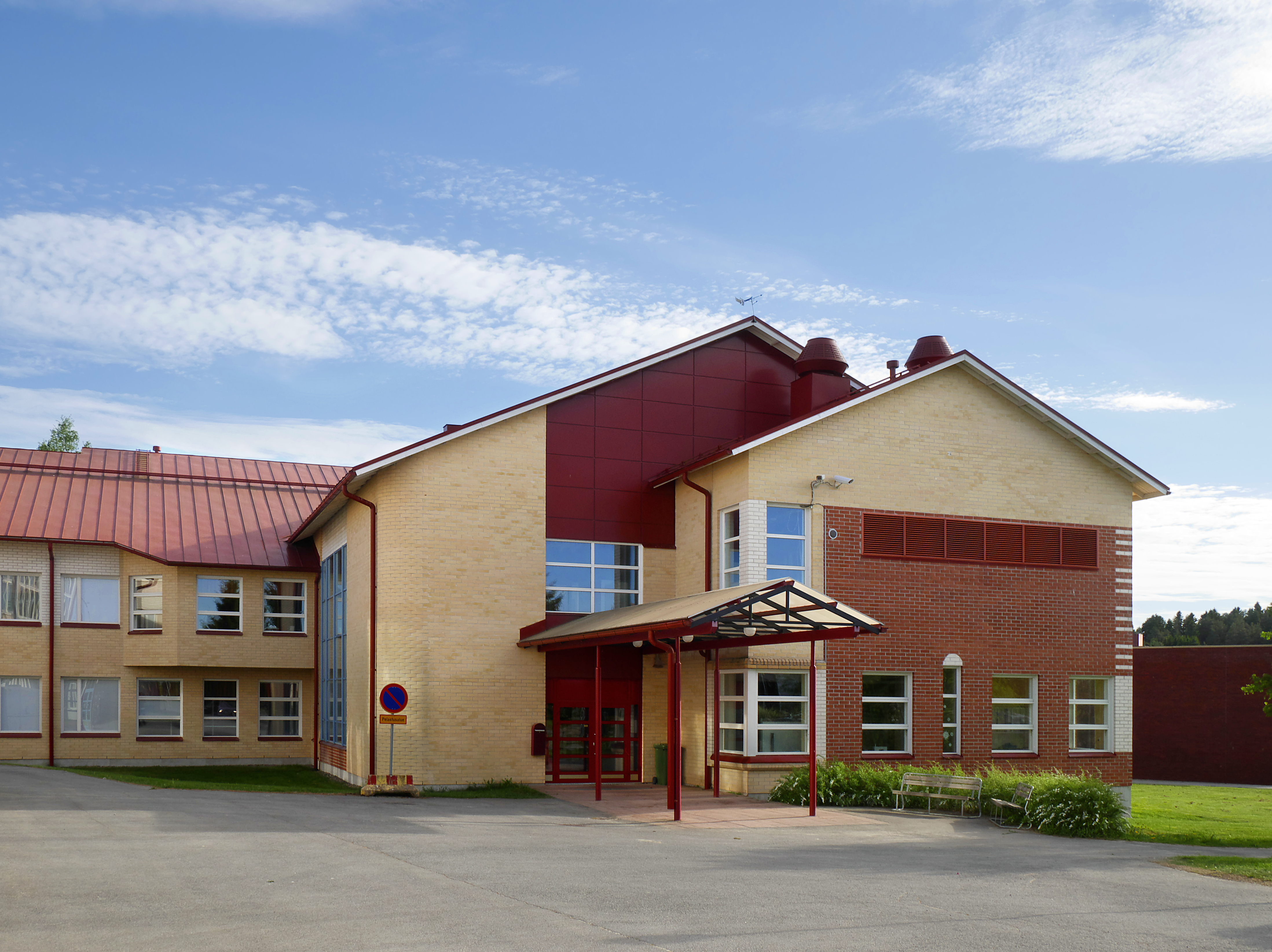 Lappajärvi Senior High School.